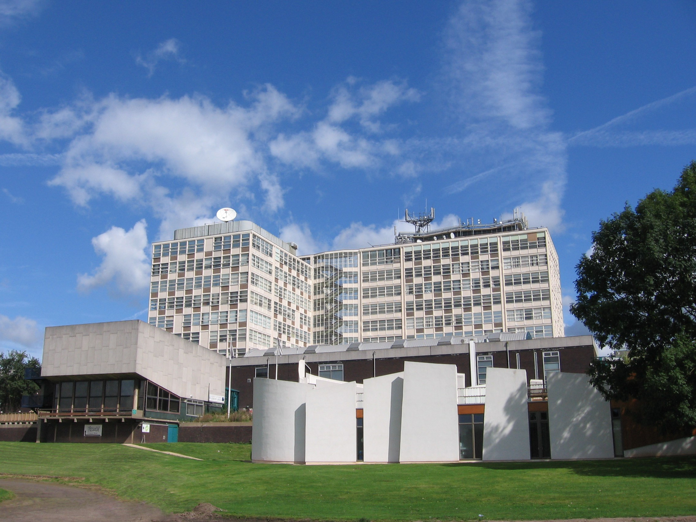 Picture of the University of Derby building